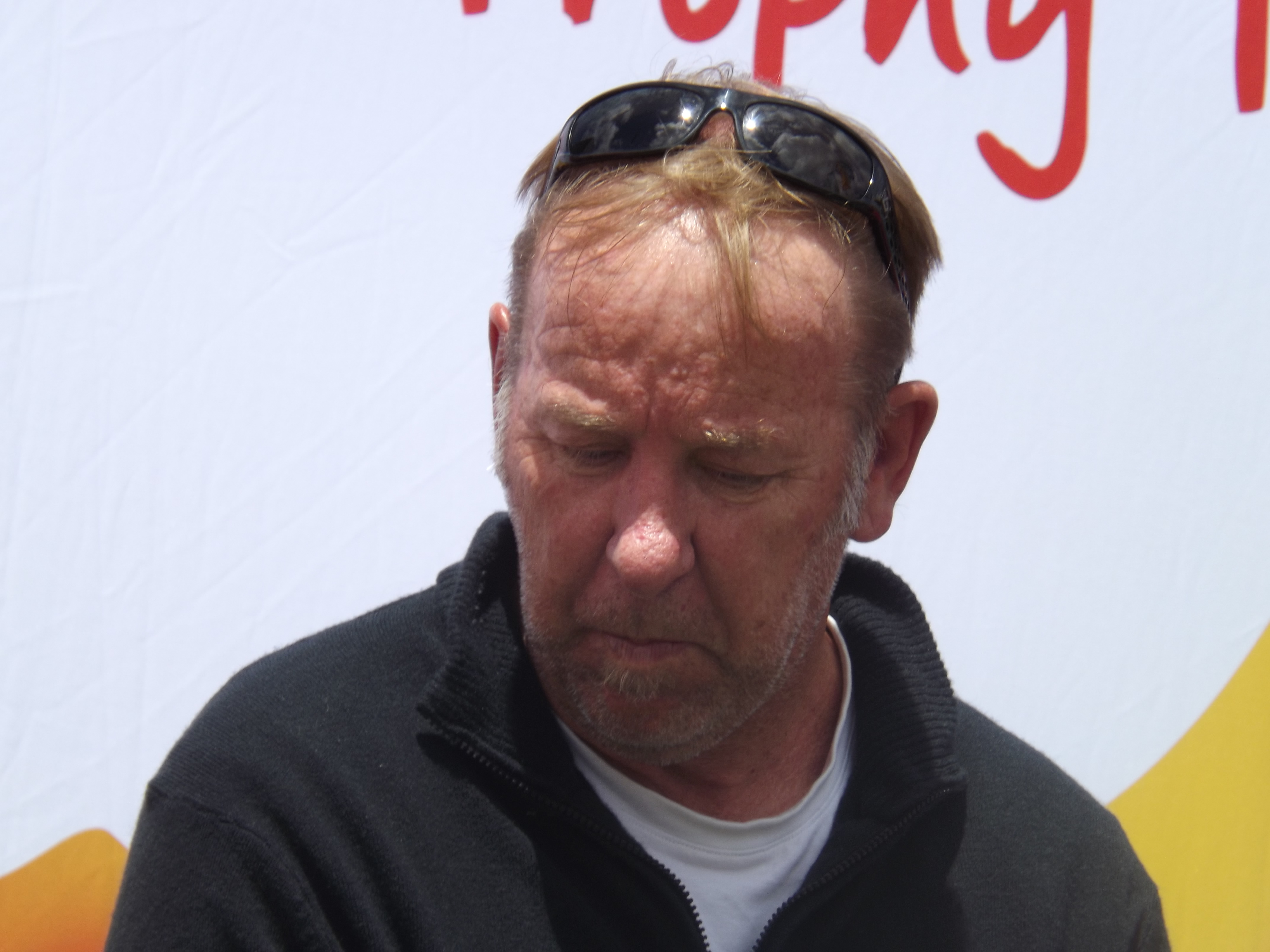 Jeff Olver during the 2015 AFC Asian Cup tour at Federation Square, Melbourne.